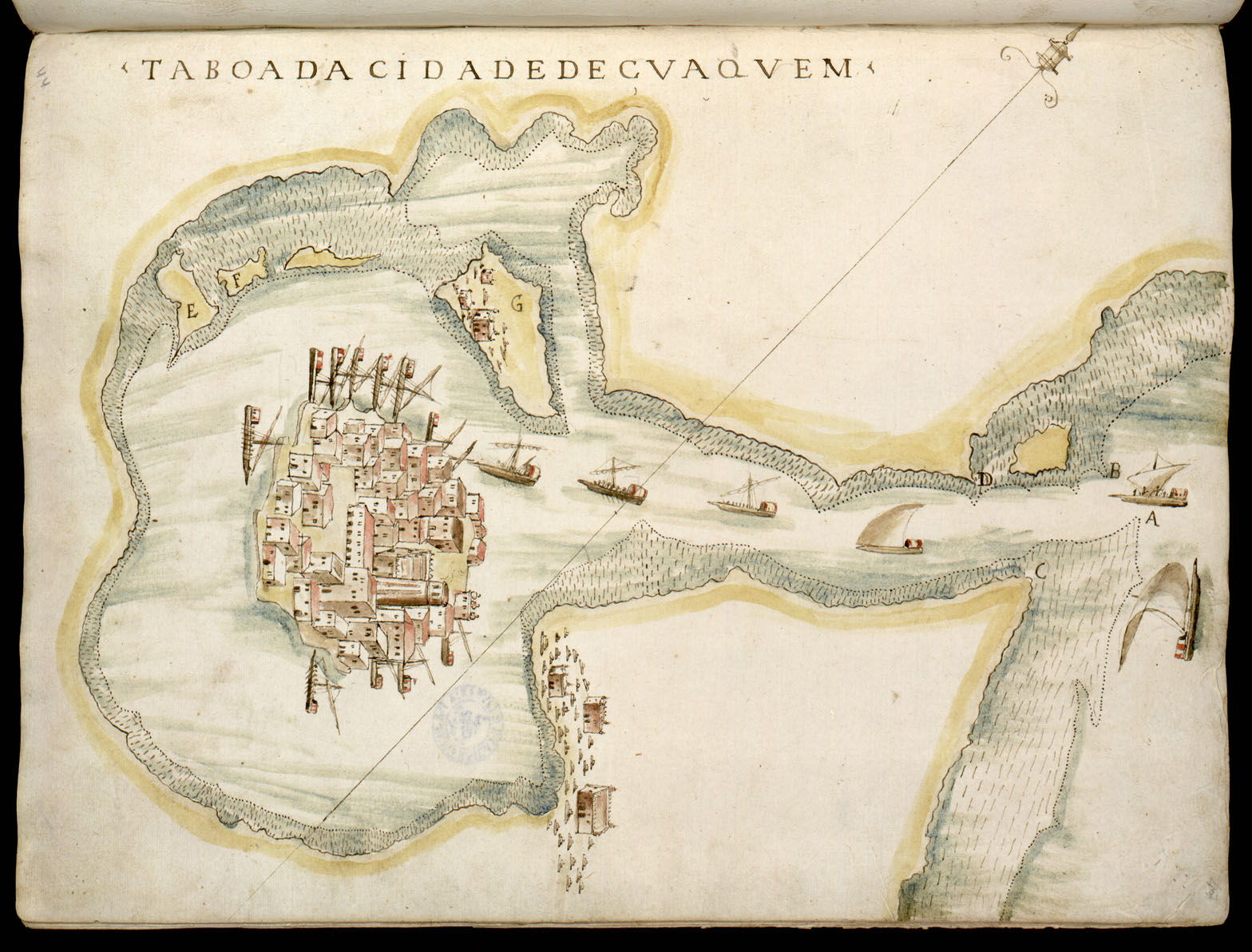 16th century drawing of the port city of Çuaquem, made by the Portuguese nobleman Dom João de Castro as part of a work called Roteiro do Mar Roxo, a compilation of navigational, geographical and hydrographical information regarding the Arabian coasts and the Red Sea, then known as the Purple Sea. Now kept at the library of the University of Coimbra, in Portugal. Made during the military expedition of the Portuguese governor of India Estevão da Gama to the Suez, in which the city of Suakin was sacked.